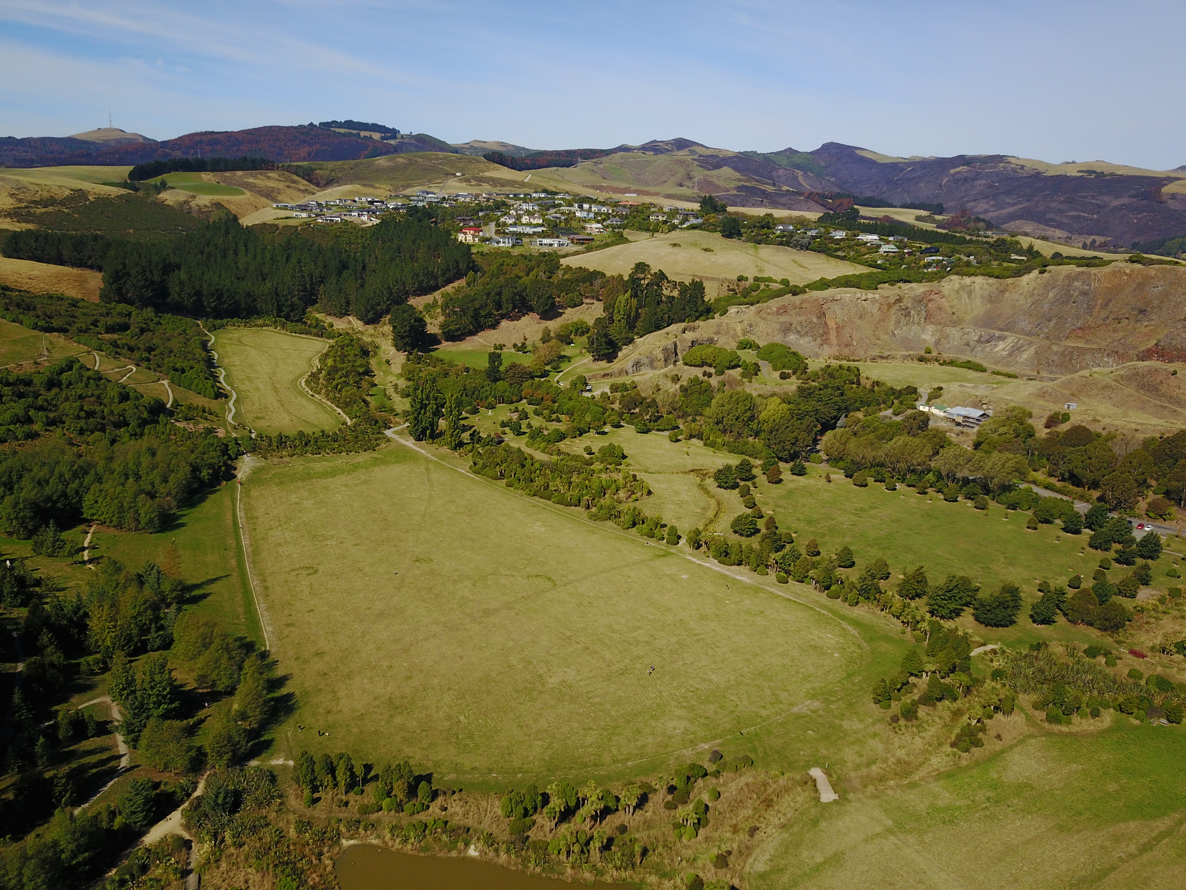 Aerial photo of Halswell Quarry in Kennedys Bush, Christchurch, New Zealand.